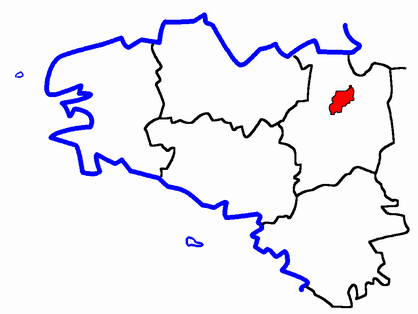 Description: Map for localisazion of cantons of Bretagne region in France Source: made by Hervé Tigier from another large map (published in 1990)